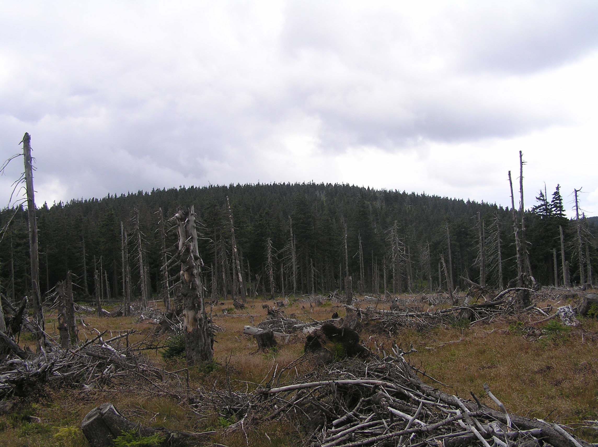 Sušina (1321 m) is the mountain near the the town Králíky, the Králický Sněžník Mountains, Czech Republic